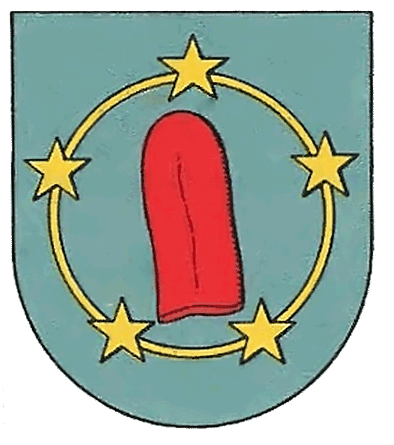 Coat of Arms of Zwischenbrücken, Vienna